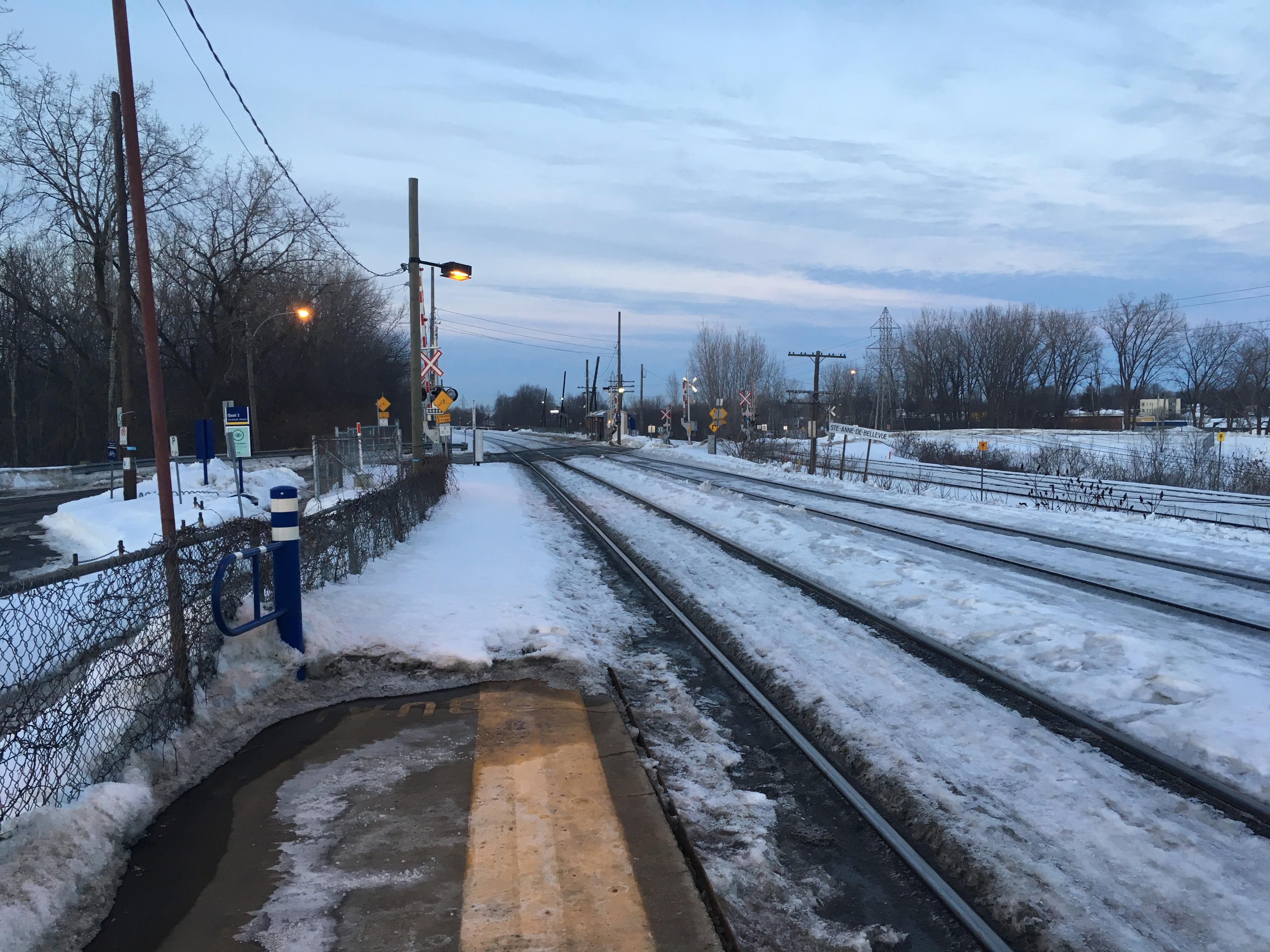 Picture of the Île-Perrot exo train station